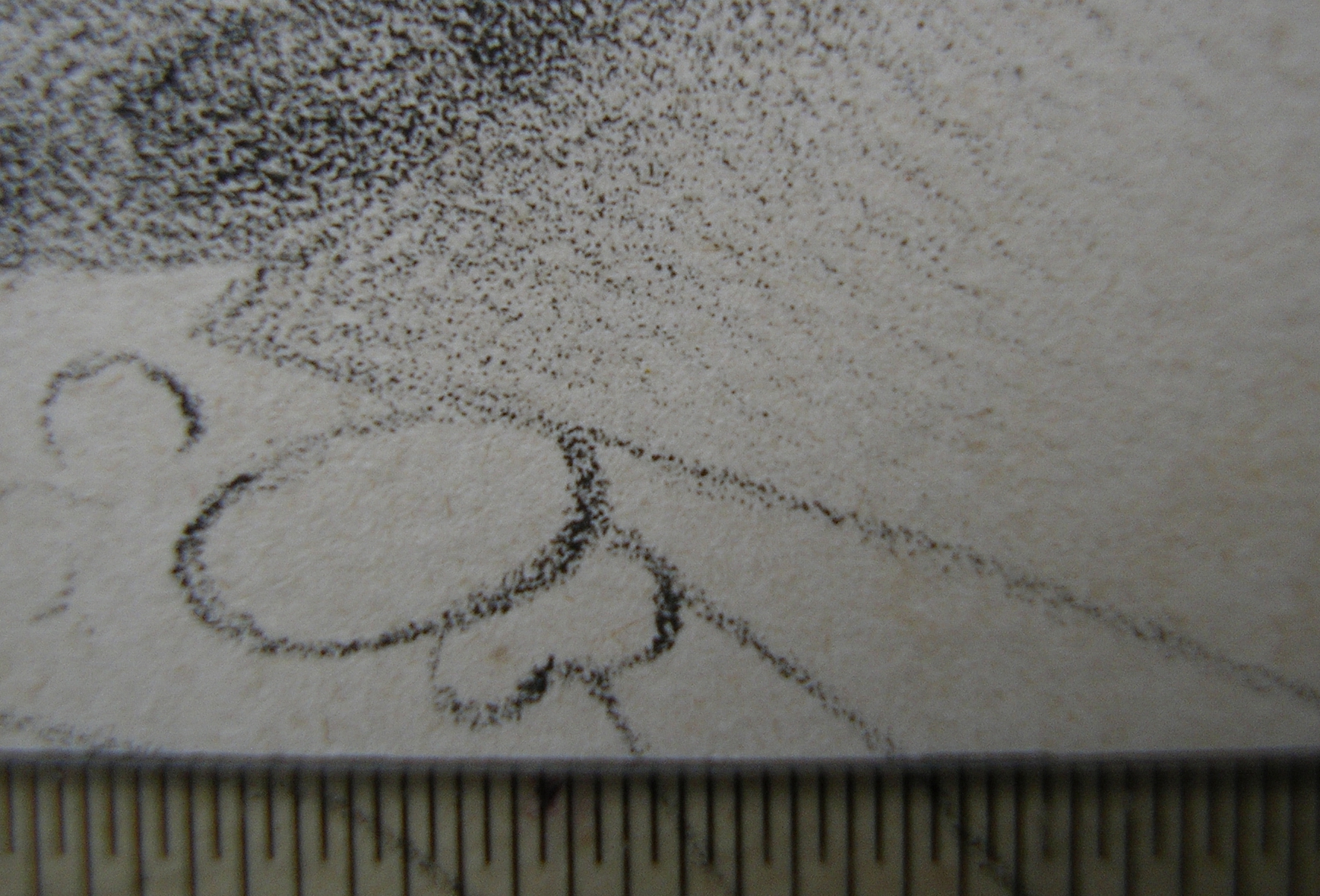 Detail (macrophotograph) of a lithography, about 1850